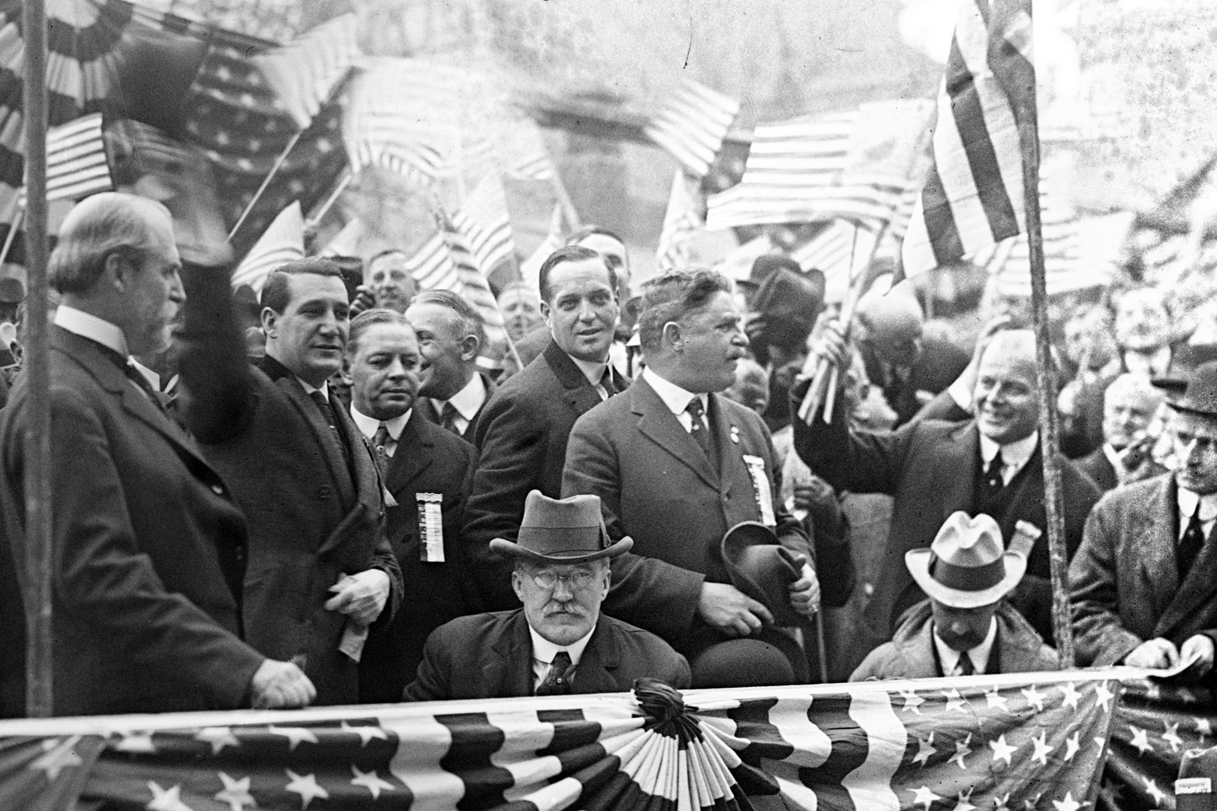 Charles Evans Hughes (left), Republican candidate for President of the United States, campaigning in New York City